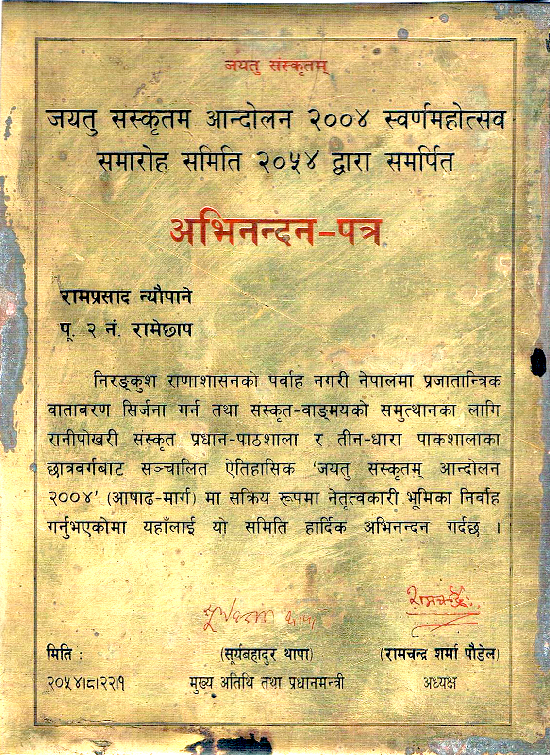 Jayantu Sanskritam Rebal was considered as the most significant and the first student rebel of Nepal. The Students from Ranipokhari Sanskrit Pradhan - Paathsaala and Tin dhara paaksaala agitated against the policy of contemporary government. The role of the students was to create awareness among the people and to spread the political consciousness as the significant beginning of democracy. So, Jayantu Sanskritam rebel was considered as the first beam of rebel or revolution. The leaders of Jayatu Sanskritam were: Ram Prasad Neupane (From Ramechhap), Kashinath Gautam, Sribhadra Sharma Khanal ( From Tanahun), Parasuram Pokhrel, Purna Prasad Brahman, Kamal Raj Regmi, Rajeshwor Devkota, Gokarna Shastri